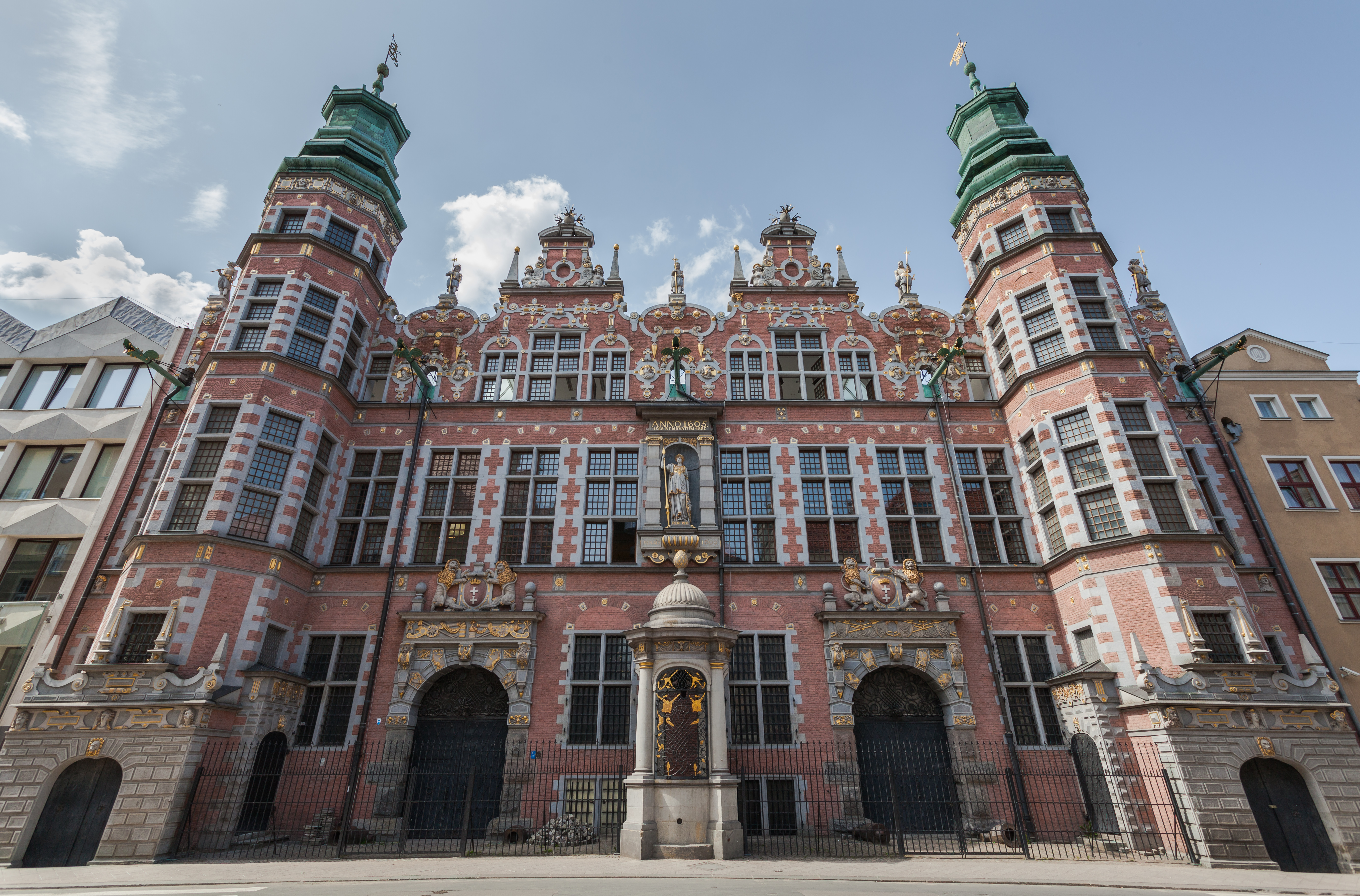 Great Armoury, Gdansk, Poland